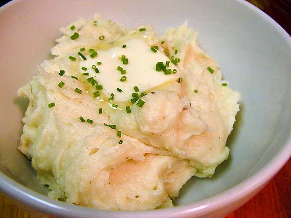 Image title: Mashed potatoes butter chives food dinner cooking Image from Public domain images website